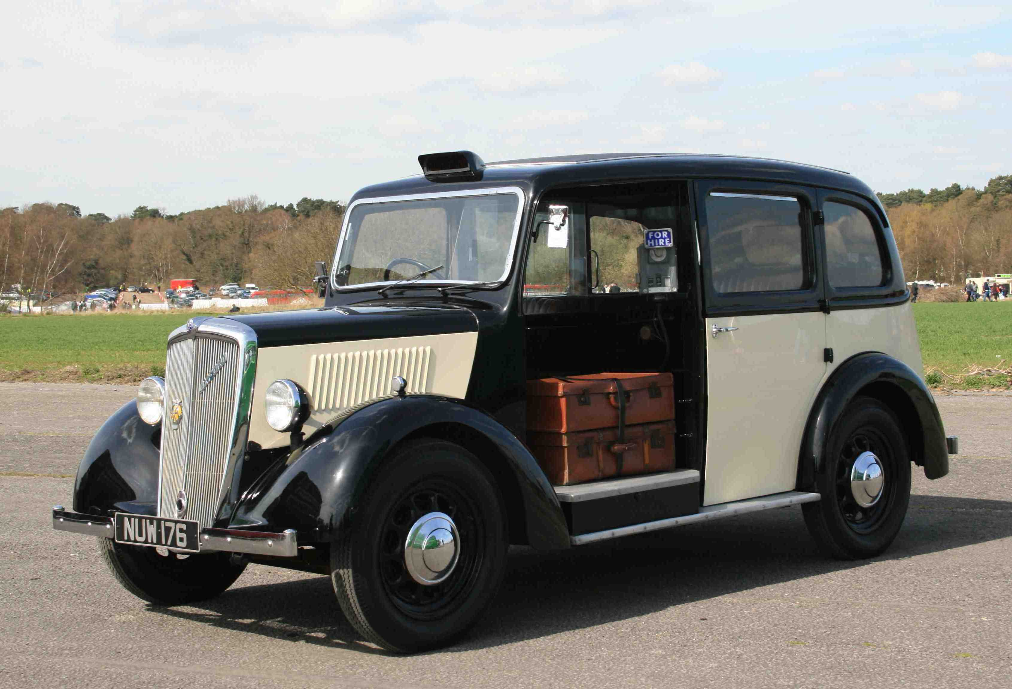 The Series III was the last model of Oxford taxi. It is identified by the additional side windows and its pressed steel wheels. The white overspray was not known at the time this cab worked, but has been added because it now is used for wedding hire